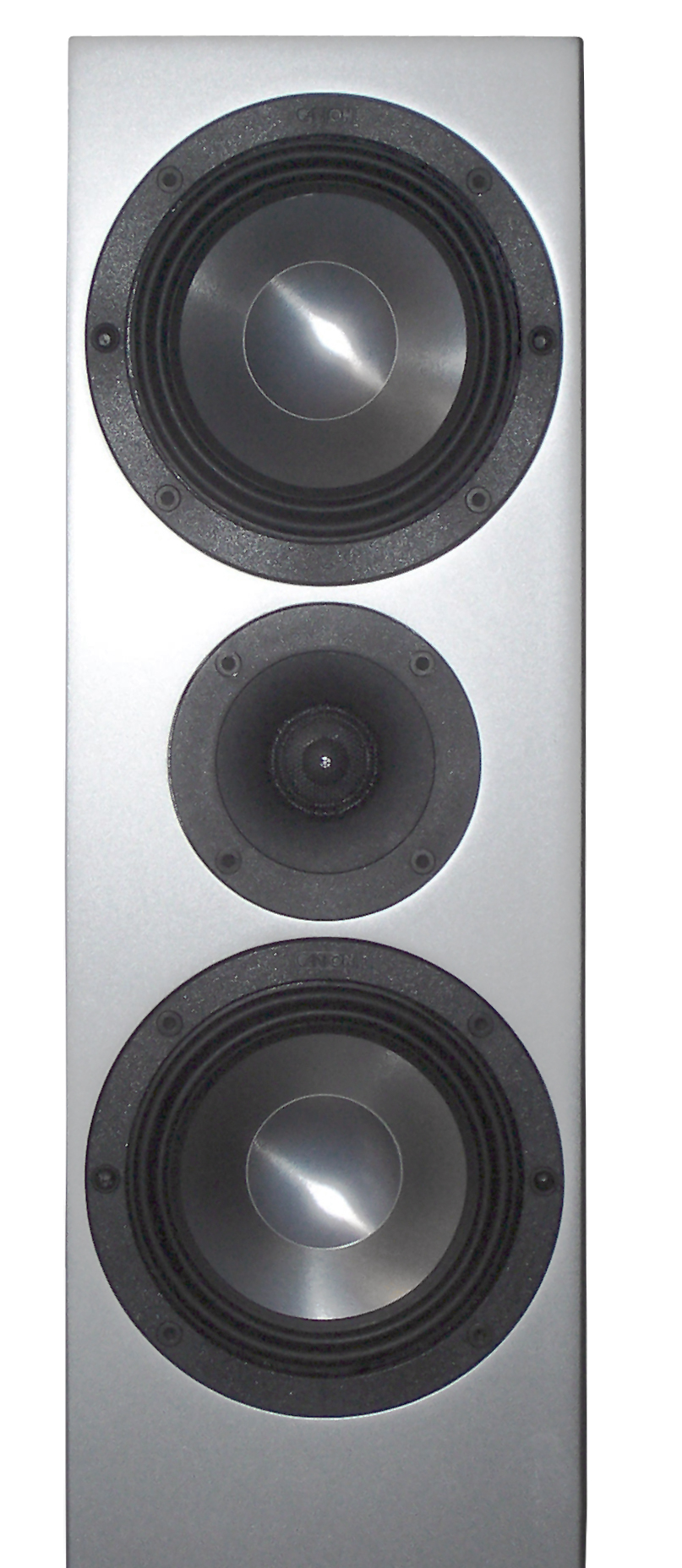 2,5 chassis of a 3-Way-box, Canton